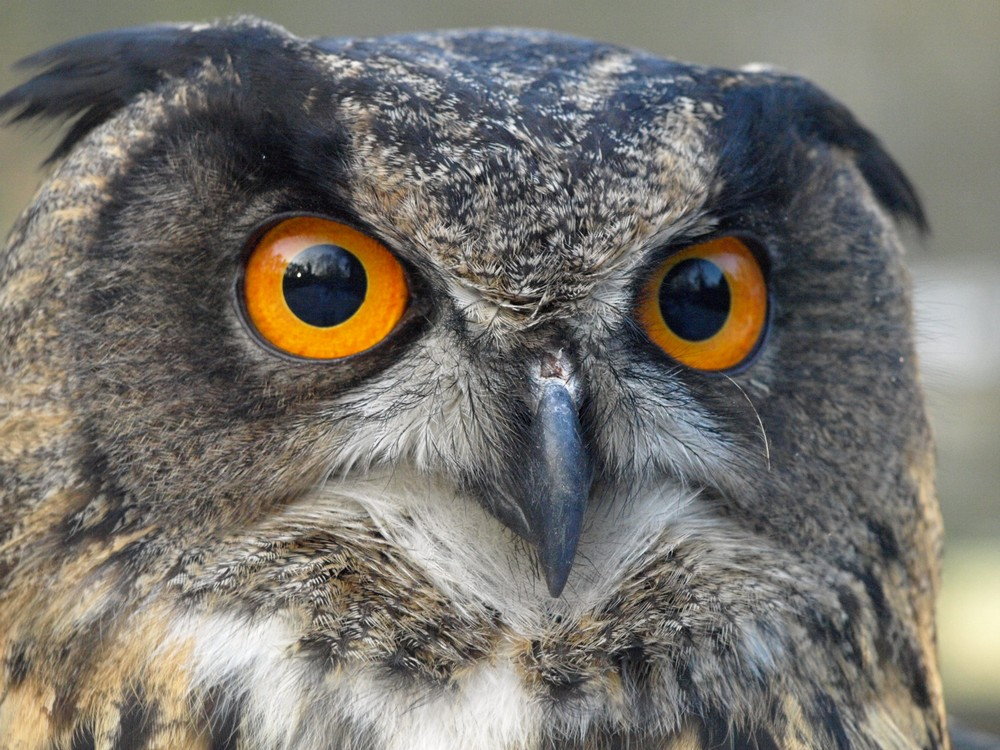 Eurasian Eagle-owl in the zoo in Děčín, Czech Republic.